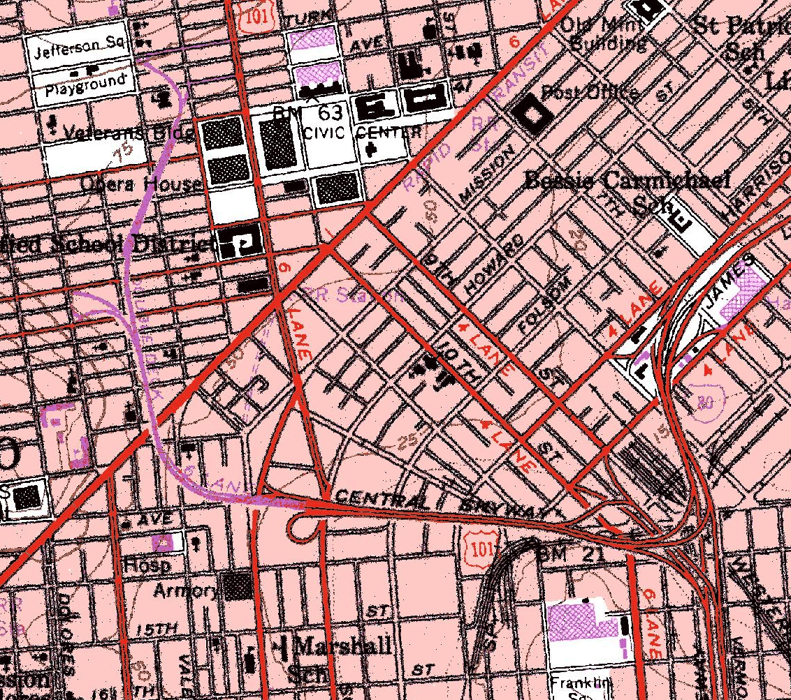 July 1, 1998 USGS topographic map, showing the Central Freeway (purple sections are now gone).